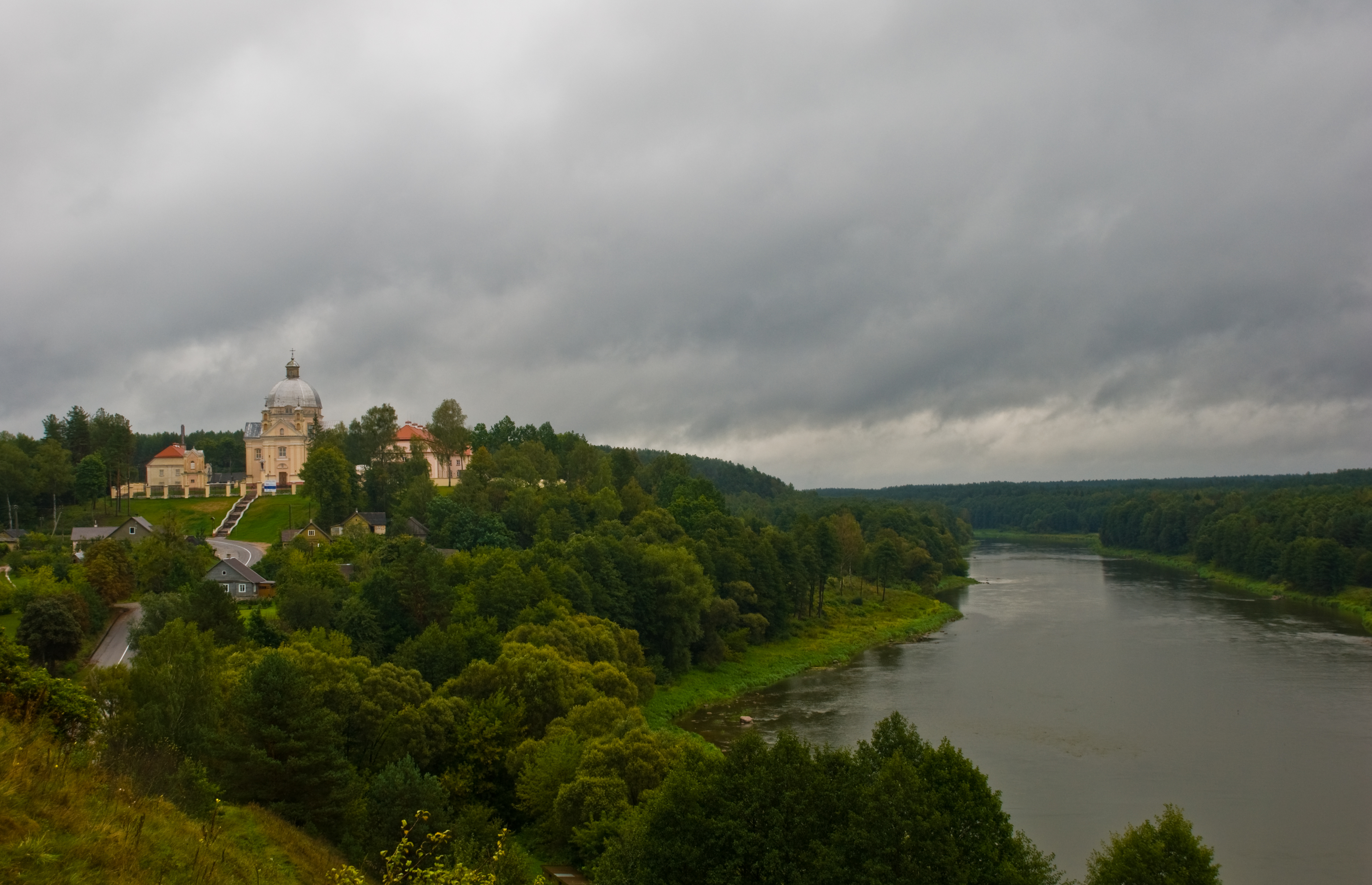 Neman River near Liškiava, Lithuania